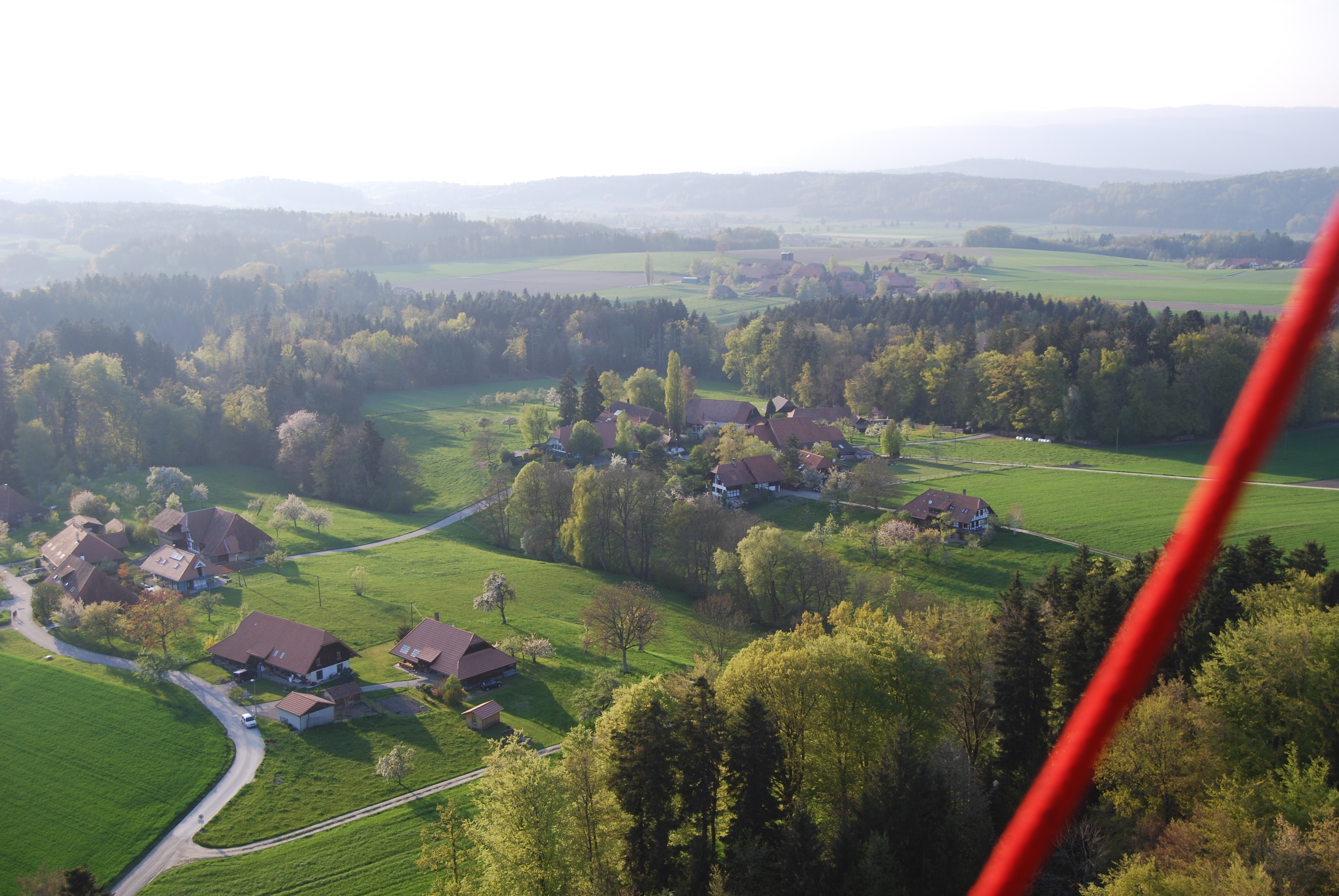 Vogelsang (municipality of Rapperswil, canton of Berne), Switzerland